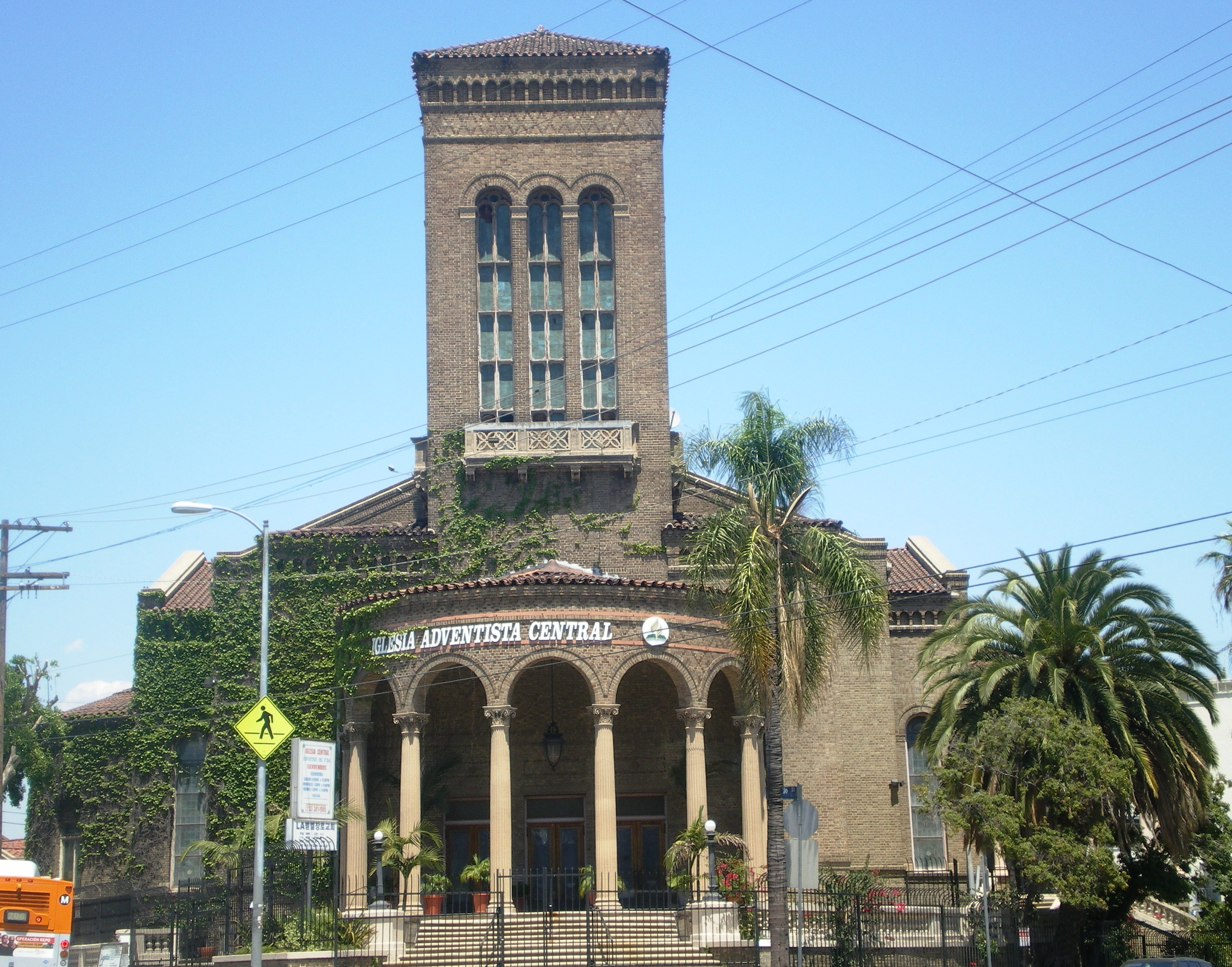 Former First Church of Christ Scientist — 1366 S. Alvarado St., Pico-Union district, Los Angeles, California. Present day Seventh-day Adventist Iglesia Adventista Central, and in the 1970s the Peoples Temple led by the Jim Jones. A Los Angeles Historic-Cultural Monument, and Historic district contributing property in the Alvarado Terrace Historic District.